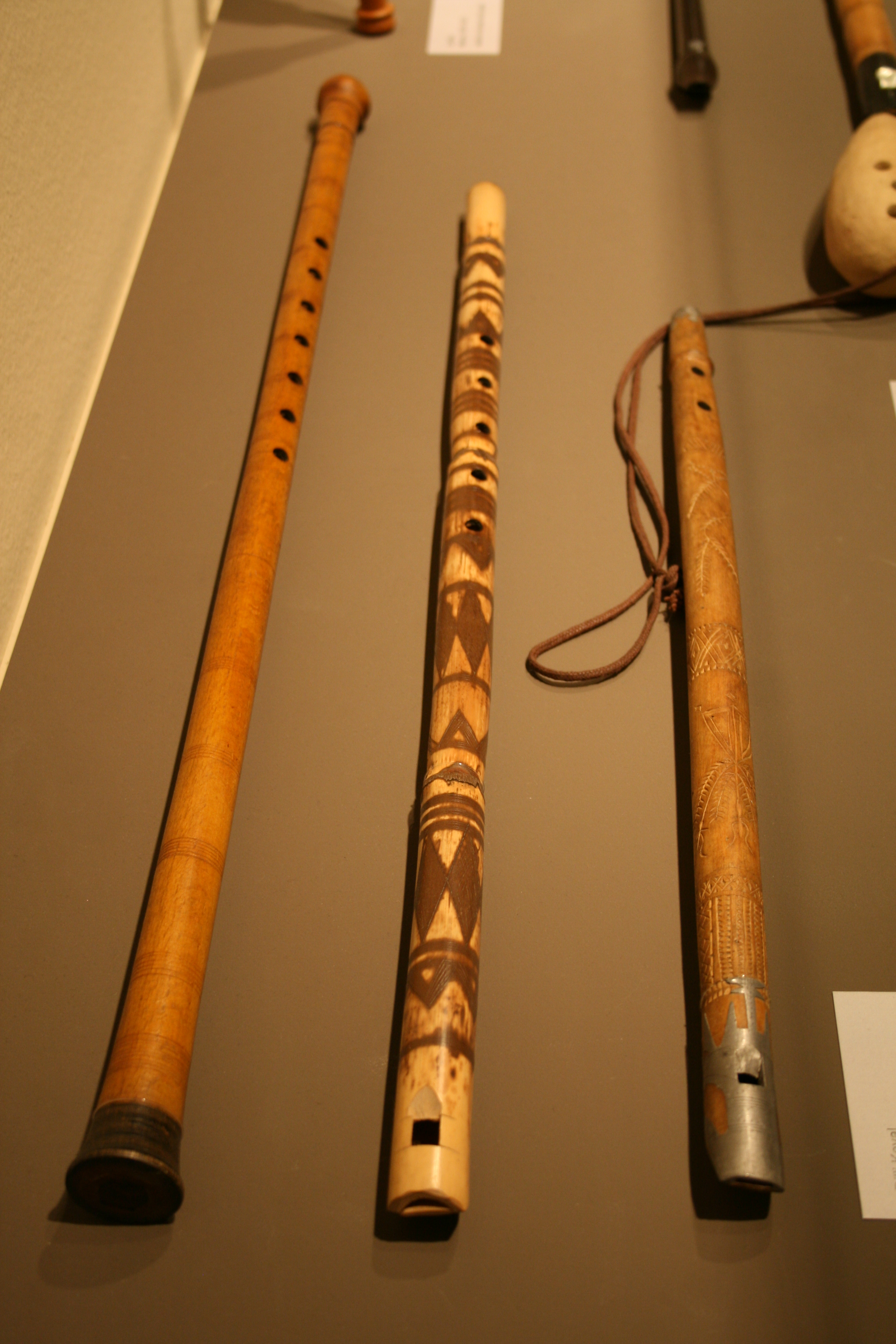 Folkloric recorders. From left to right: Kaval from Turkey, Masula from Algeria, and Flaüta from Baleraic Islands (Eivissa).